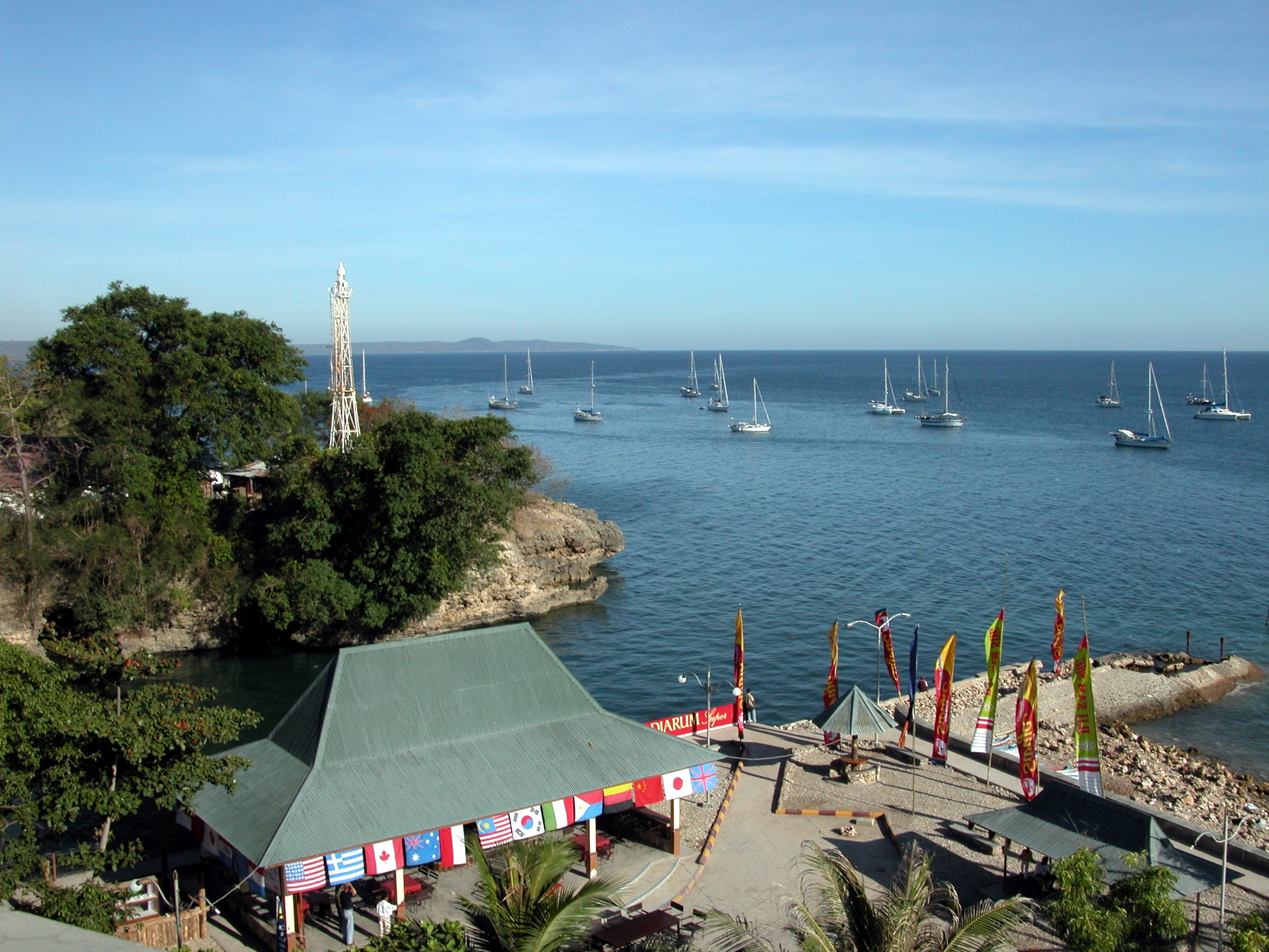 Kupang lighthouse and anchorage for yachts participating in Sail Indonesia.